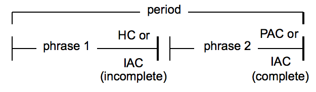 A model of a period consisting of two periods, the first ending in an incomplete half cadence, the second ending in a more complete perfect authentic cadence. This model is compiled from the general commonalities of Benjamin, Thomas; Horvit, Michael; and Nelson, Robert (2003). Techniques and Materials of Music, p.252. 7th edition. Thomson Schirmer. ISBN 0495500542. Cooper, Paul (1973). Perspectives in Music Theory, p.48. Dodd, Mead, and Co. ISBN 0396067522. Kostka, Stefan and Payne, Dorothy (1995). Tonal Harmony, p.162. Third edition. McGraw-Hill. ISBN 0073000566. Some sources list only HC and PAC, or only list "cadence" at the end of both phrases. Sources that label "incomplete" and "complete" may use "progressive" and "terminal" or other variants.